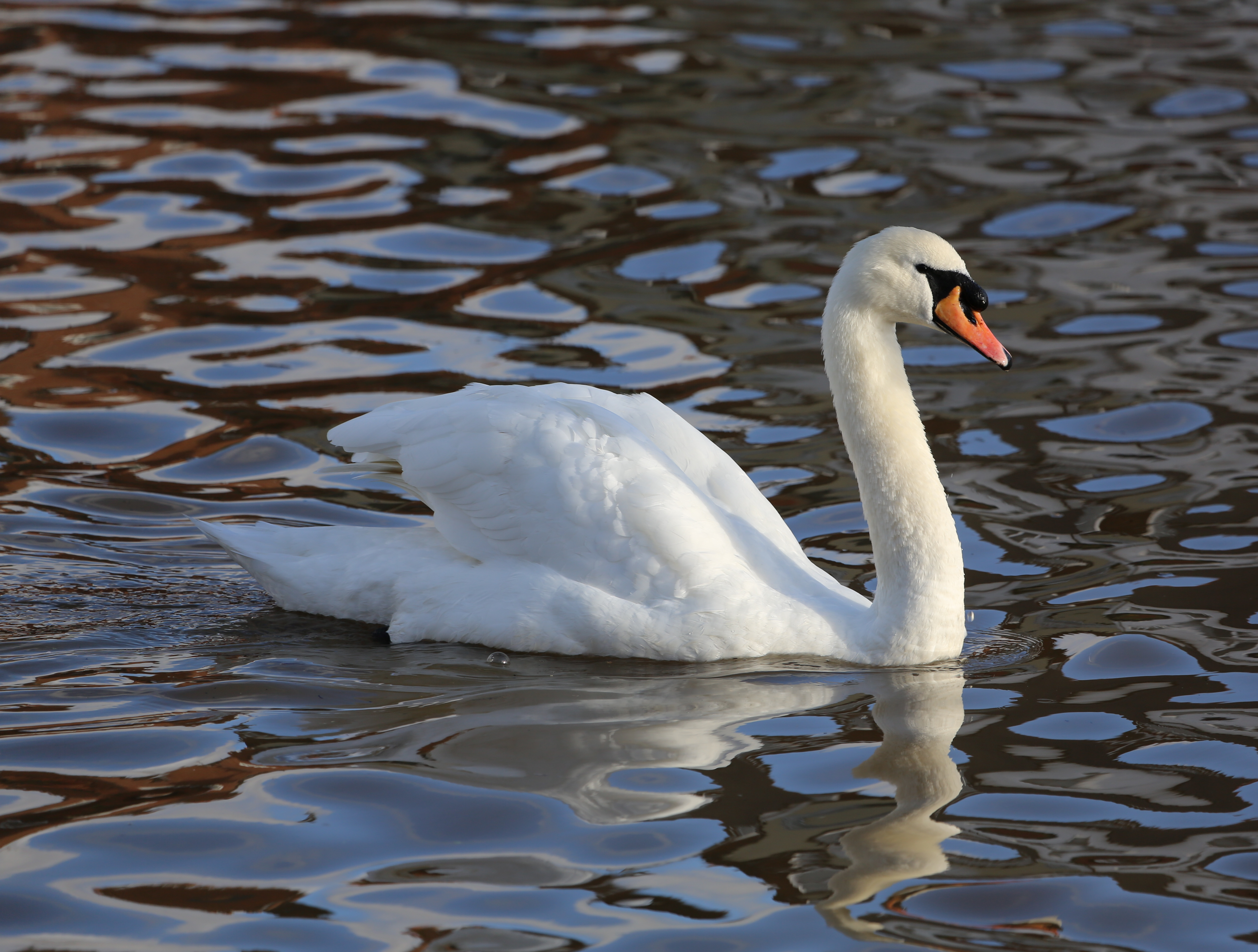 A photo of a Mute swan (Cygnus olor) swimming on Emsworth Millpond